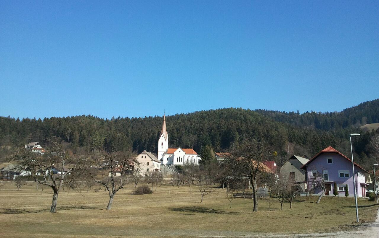 Pameče, Slovenj Gradec, Slovenia.